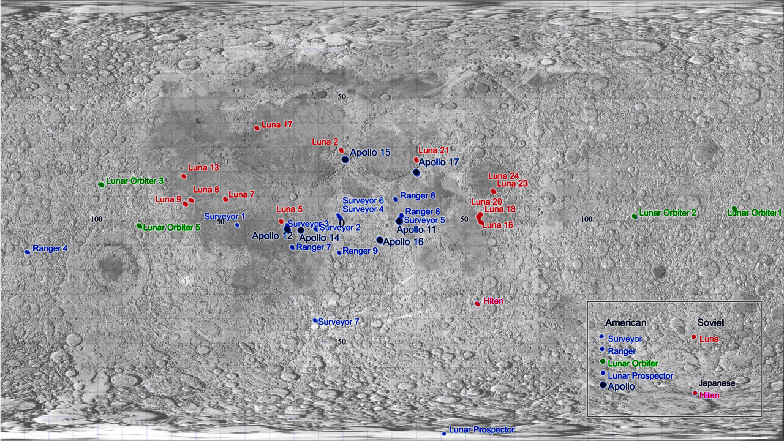 Grid showing artificial objects on the moon, axis shows latitude and longitude. made from information from List of artificial objects on the Moon. I made the image.